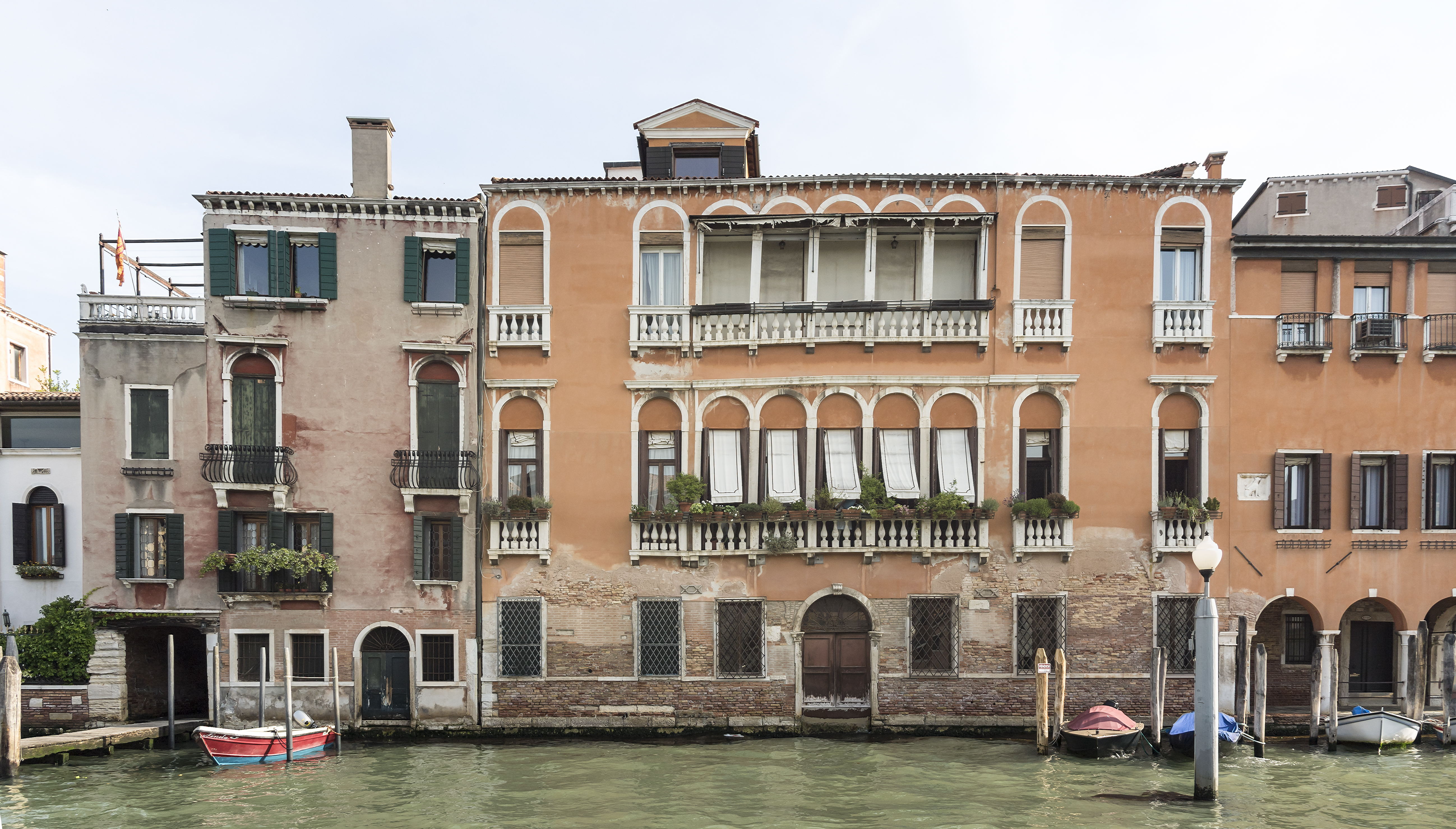 Casa Lucatello and plalace Gritti Dandolo in Venice – Facades on Grand Canal